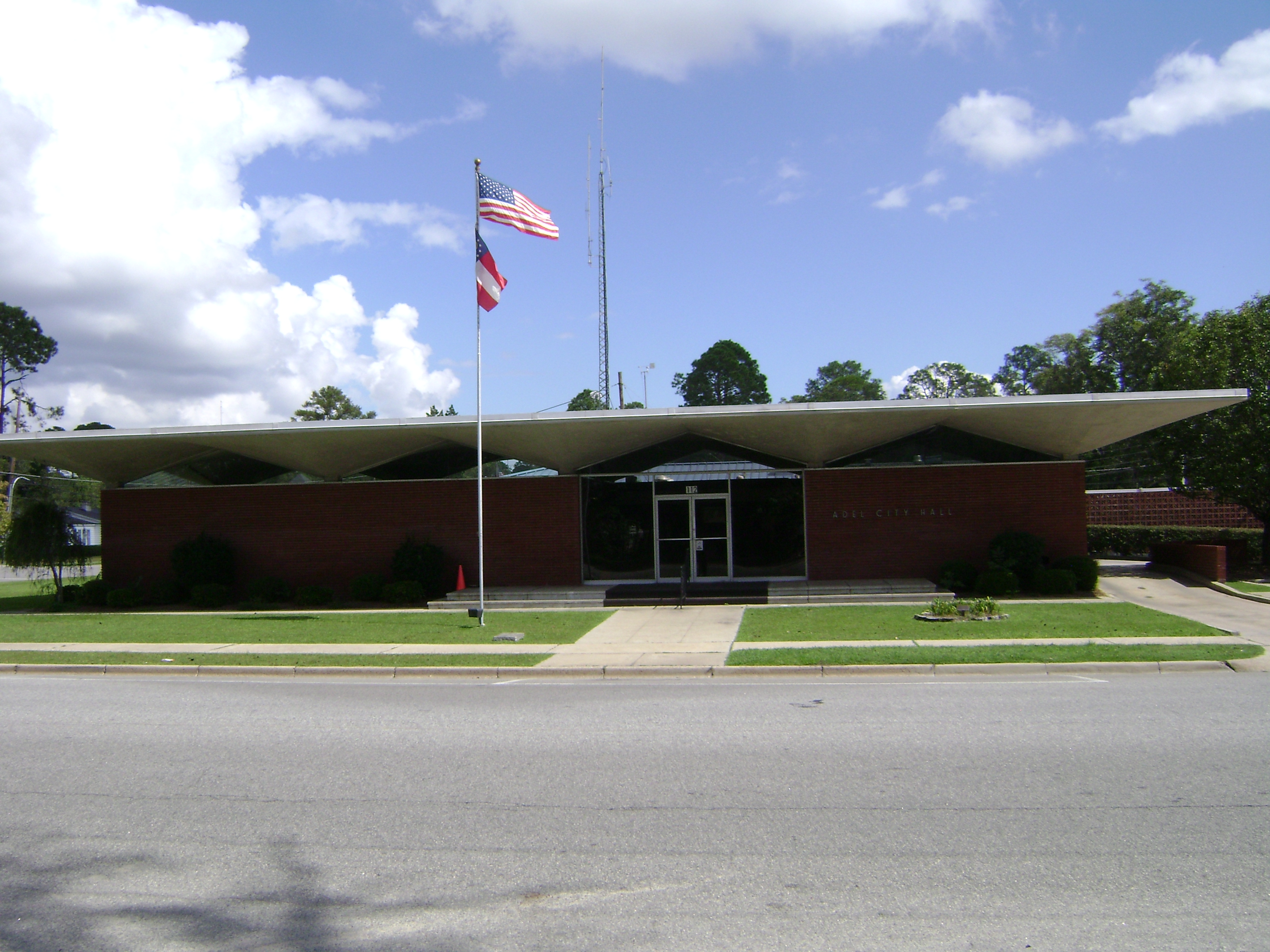 Adel City Hall in Adel, Cook County, Georgia